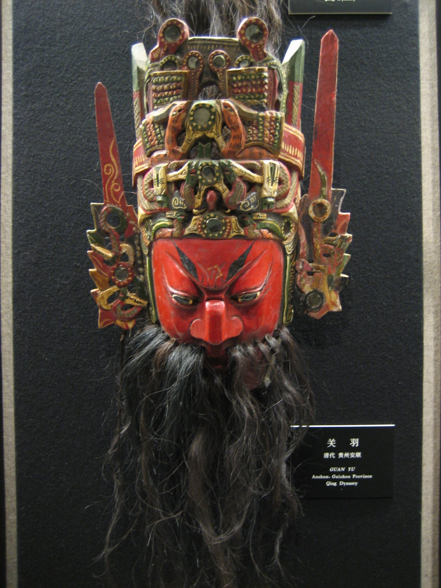 Mask of Guan Yu, Qing Dynasty, produced at Anshun, Guizhou; photoed by Mountain, at Shanghai Museum